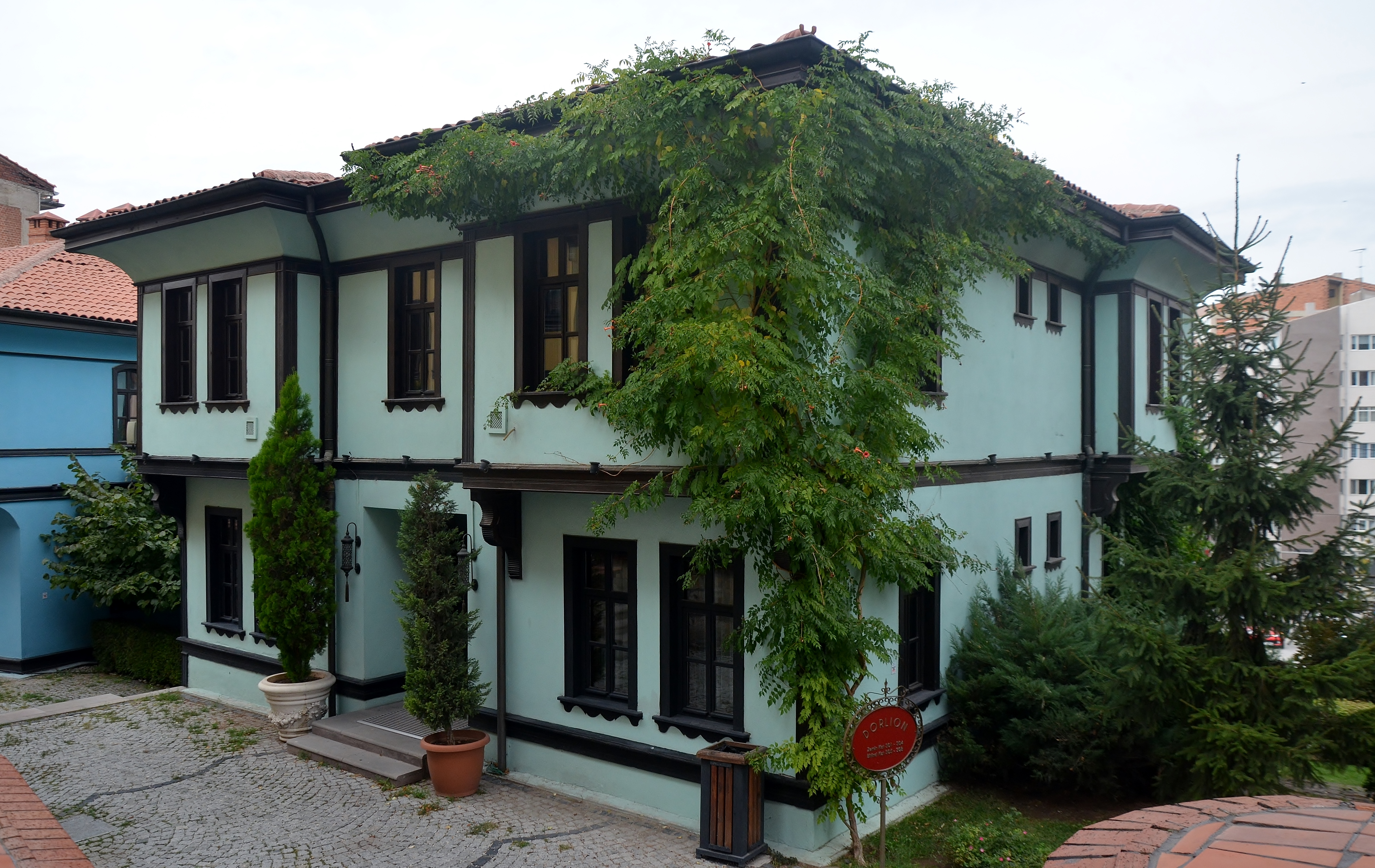 Abacı Konak Hotel in Odunpazarı, Eskişehir, Turkey